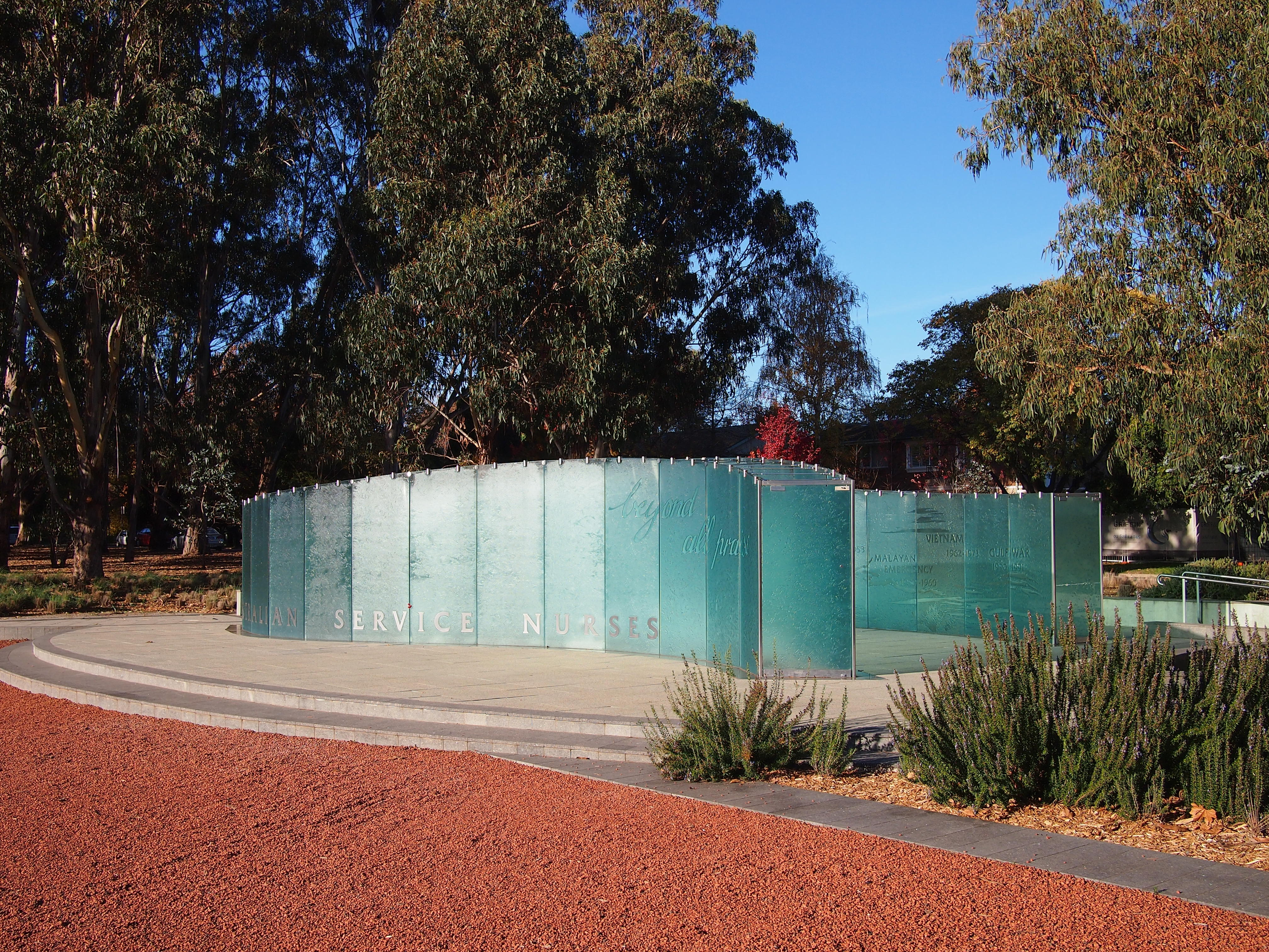 The Australian Service Nurses National Memorial